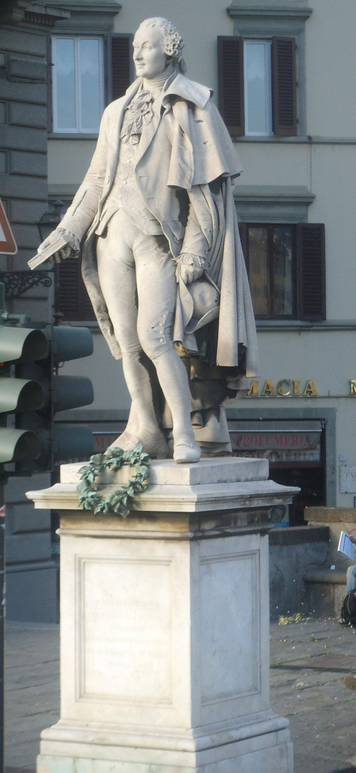 Statue of Carlo Goldoni in Florence (Piazza Goldoni).